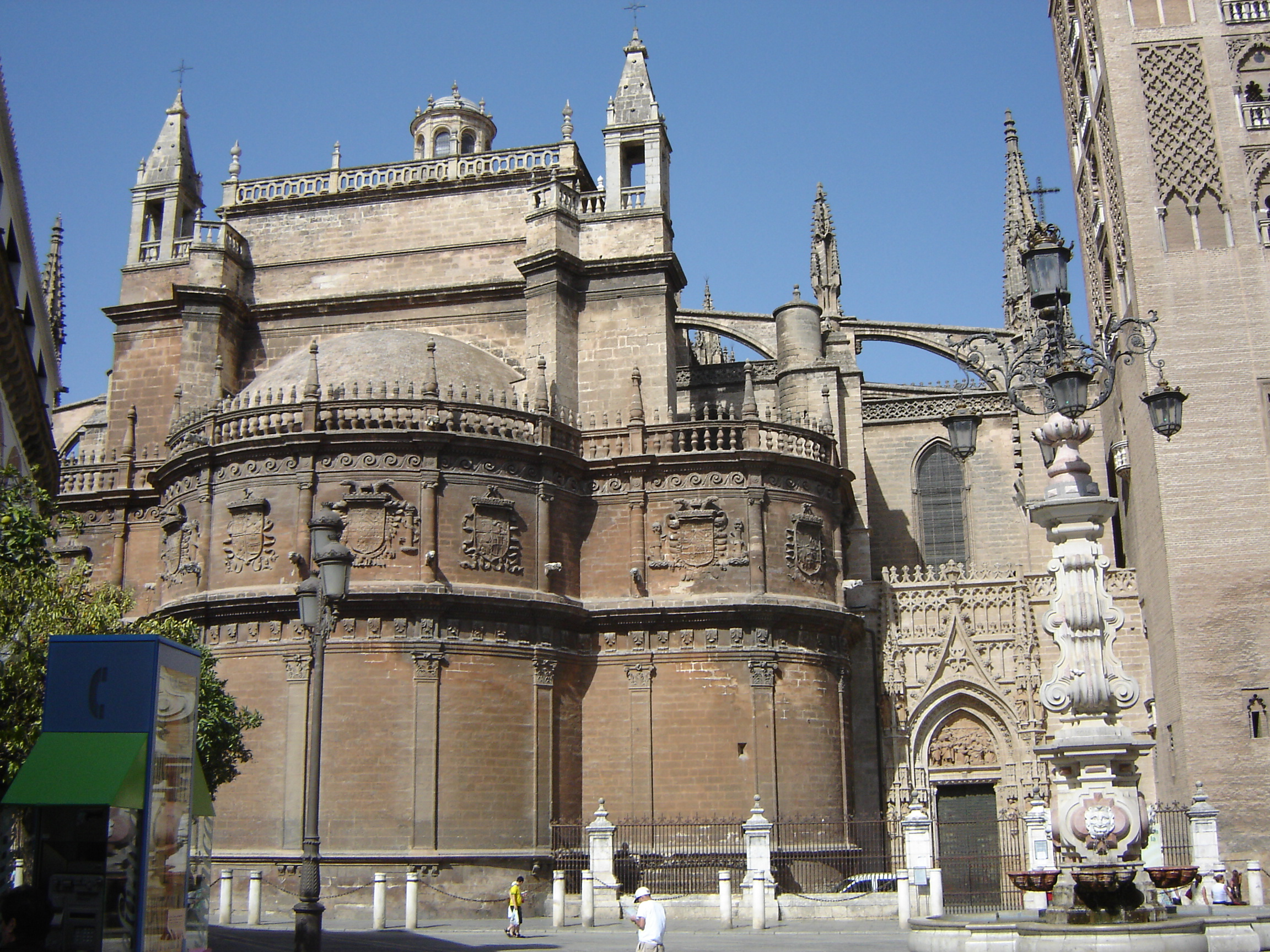 Photographer: Patrick Morin Place: Sevilla (Spain) Description: Cathedral exterior (seen from Plaza de la Virgen de los Reyes) Date: August 4th 2005